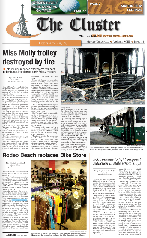 The February 24, 2011 front page of The Mercer Cluster.